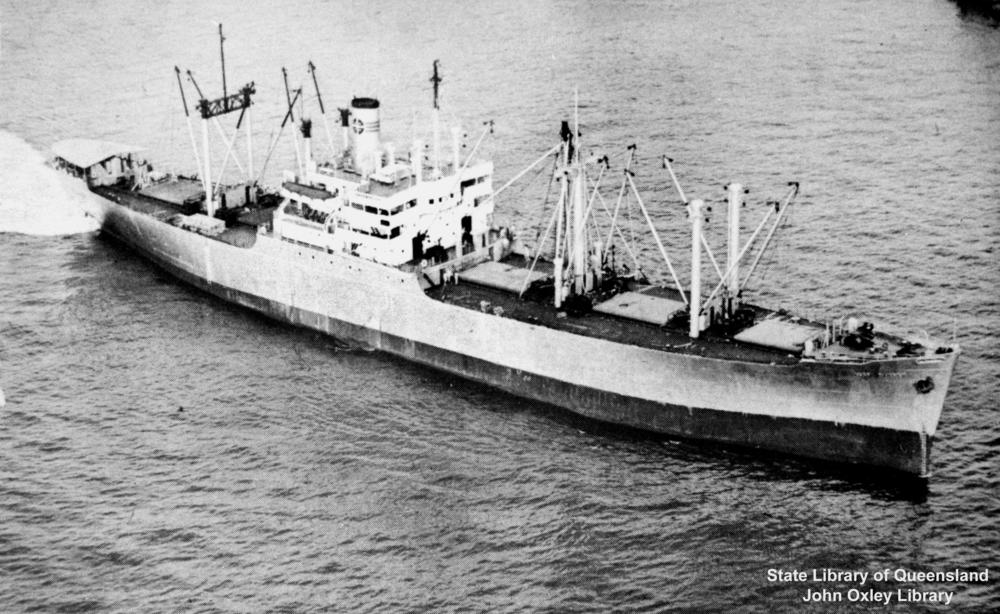 Alcoa Ranger, a steam turbine cargo ship built in 1944 as the Tolland-class attack cargo ship USS Prentiss (AKA-102). Alcoa bought and renamed her in 1947, and sold her in the 1960s. She grounded off Nicaragua in 1969 and was scrapped in Spain in 1970.